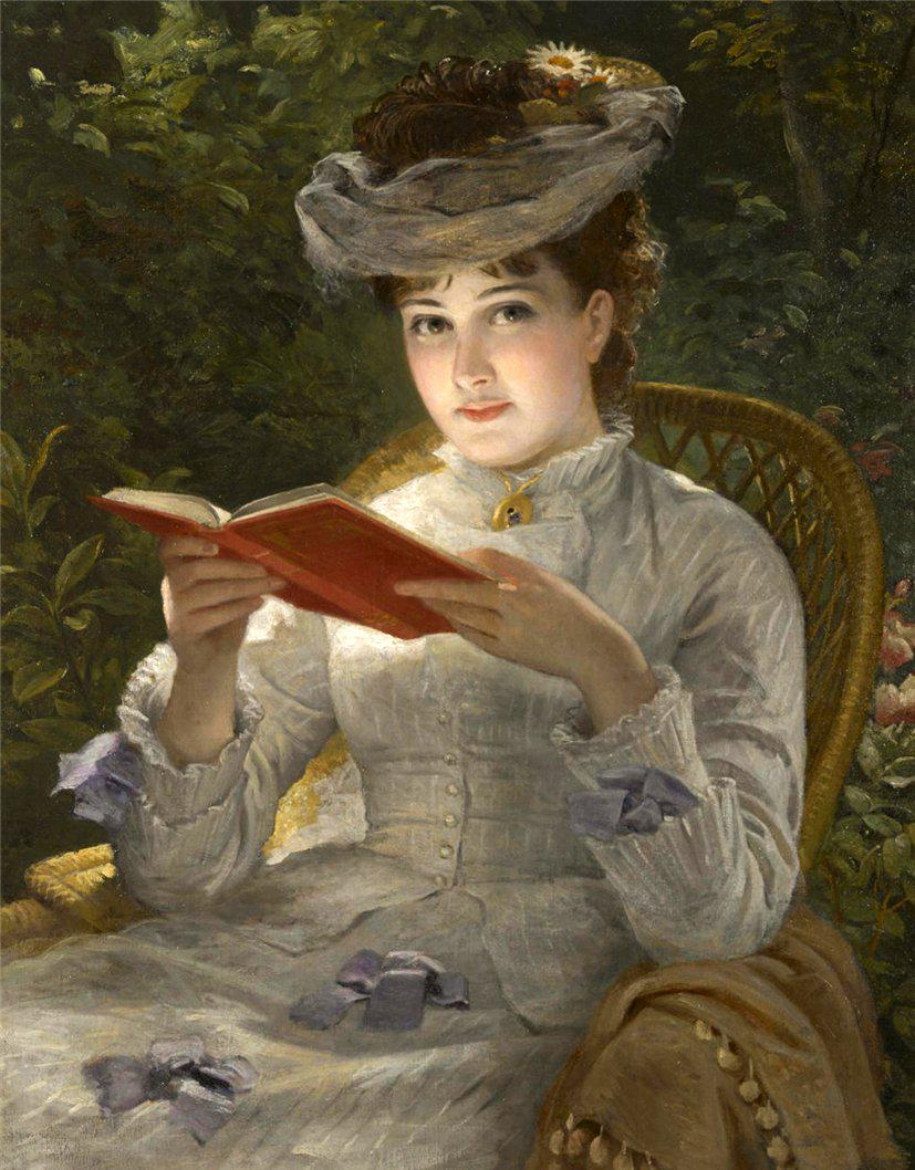 Ana Bolena Arquer